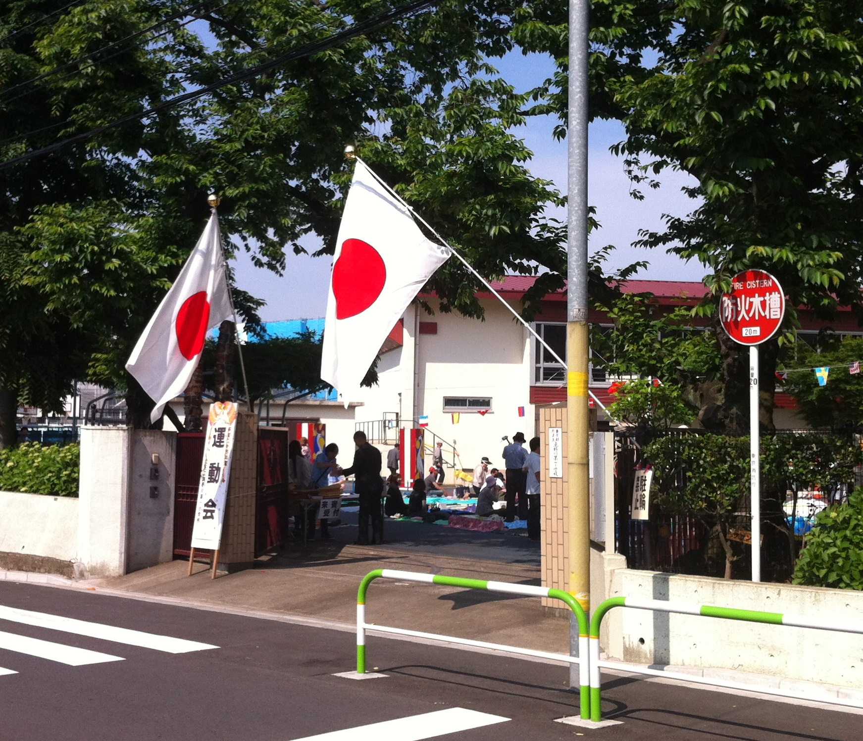 Sports Day (in Japan)